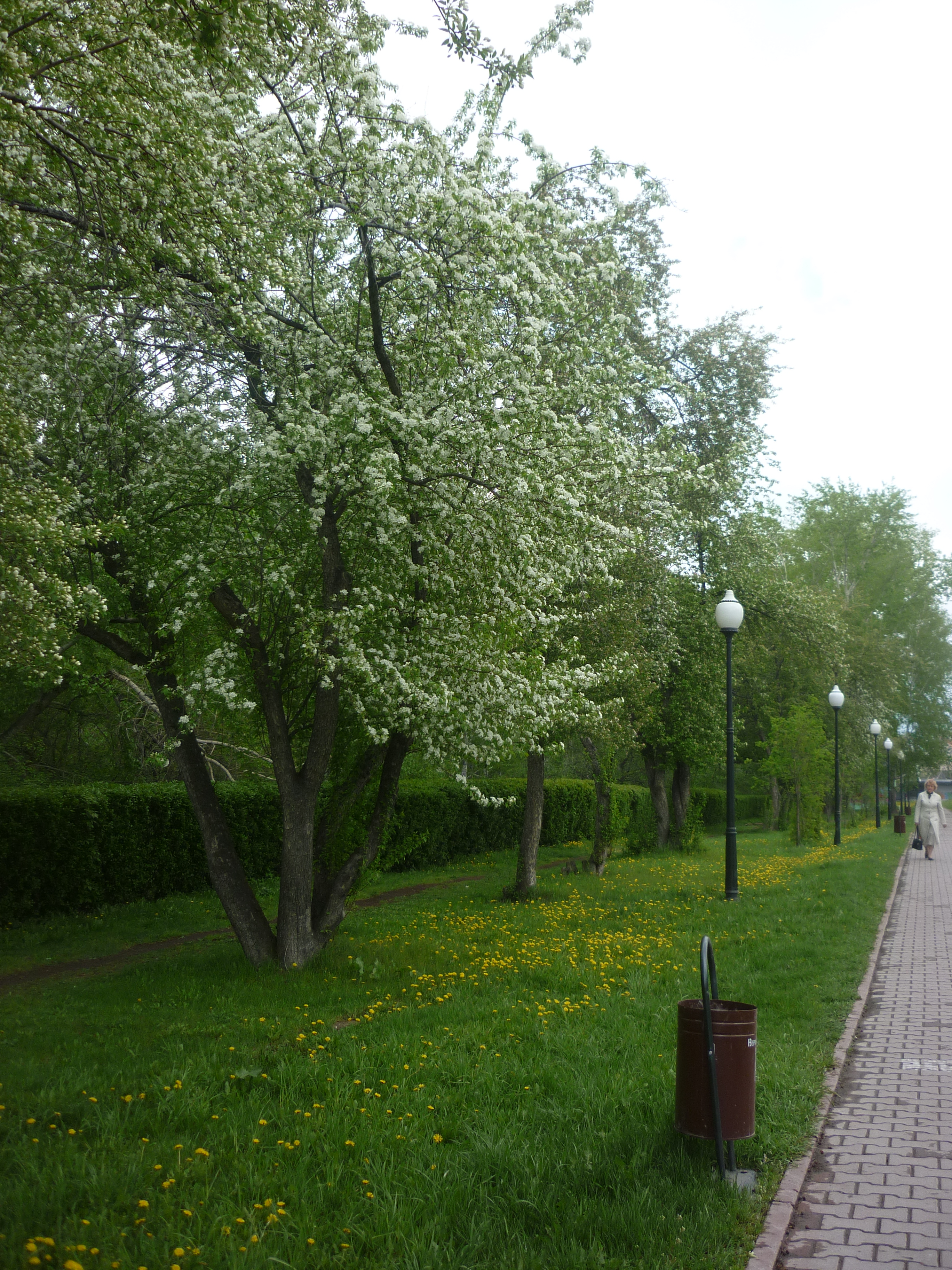 VIZ boulevard Yekaterinburg